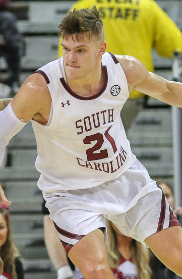 Photo by Chris Gillespie